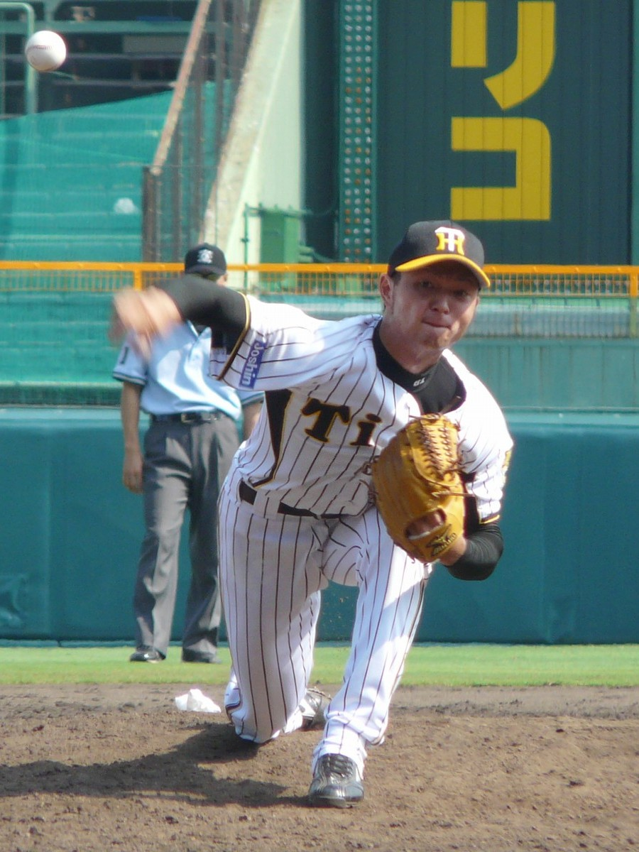 Hanshin Tigers/Kento Tsujimoto